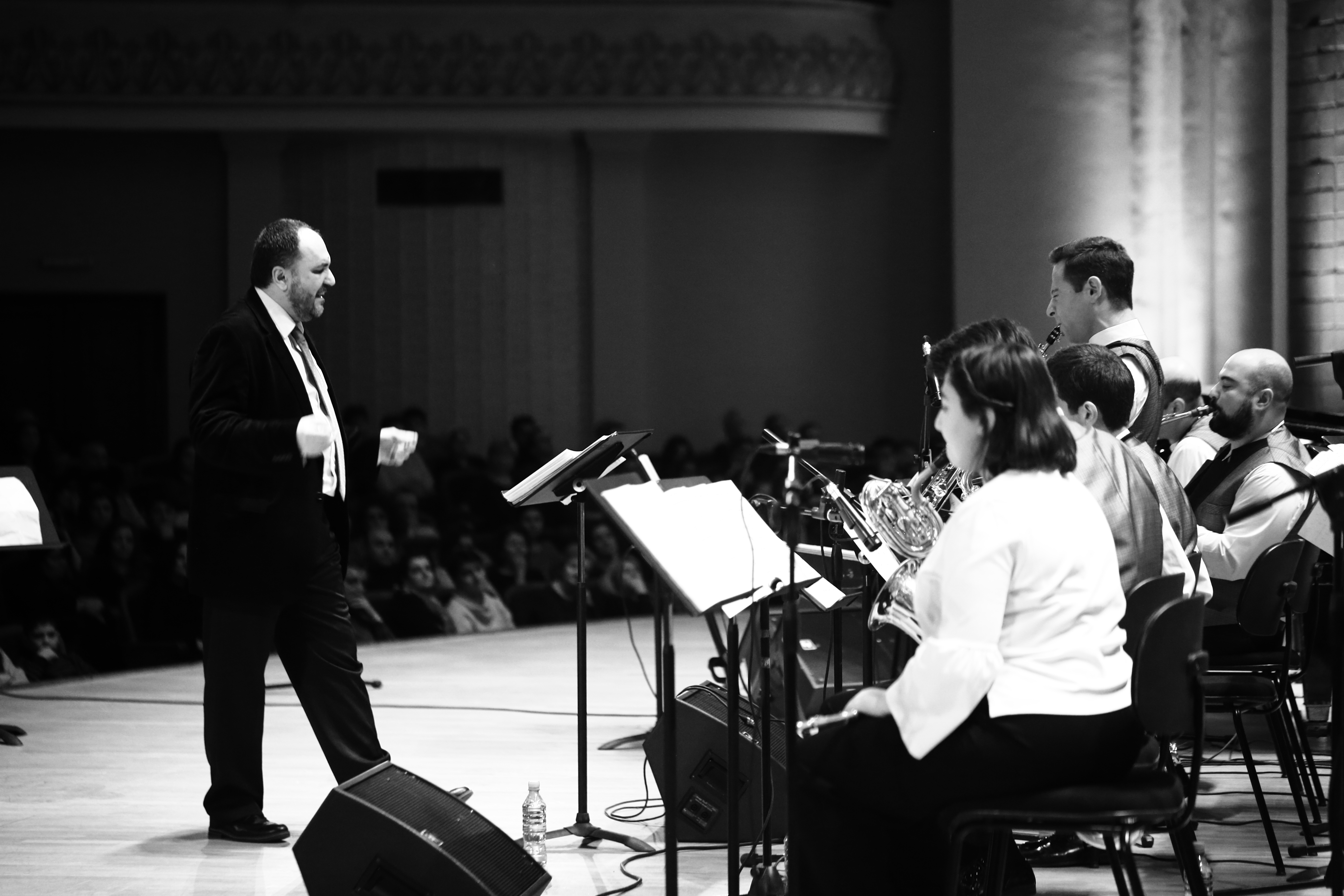 Armen Hyusnunts saxophonist,composer,arranger